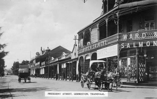 President Street, Germiston, Transvaal (now Gauteng), c1910.